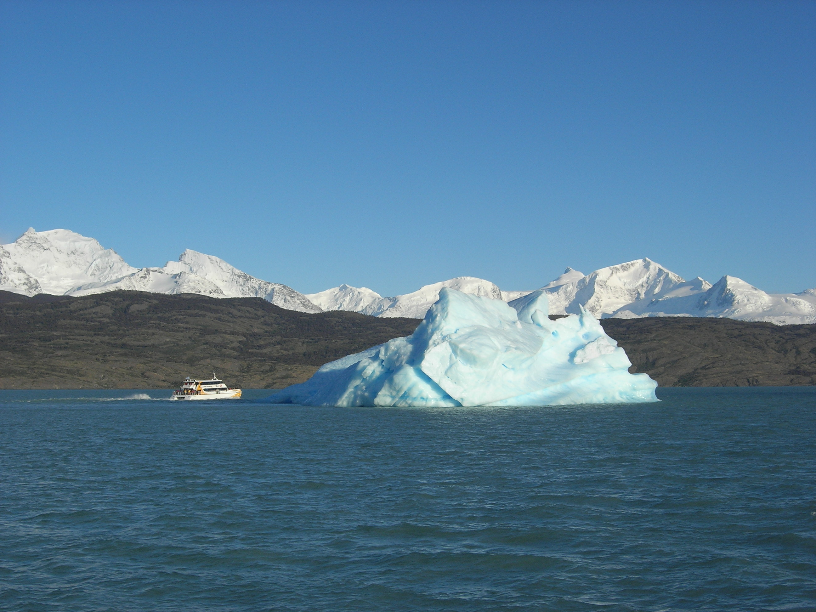 Description =Iceberg sur le lac Argentine Source =Photo taken by Remi Jouan Date =Avril 2006 Author =Remi Jouan